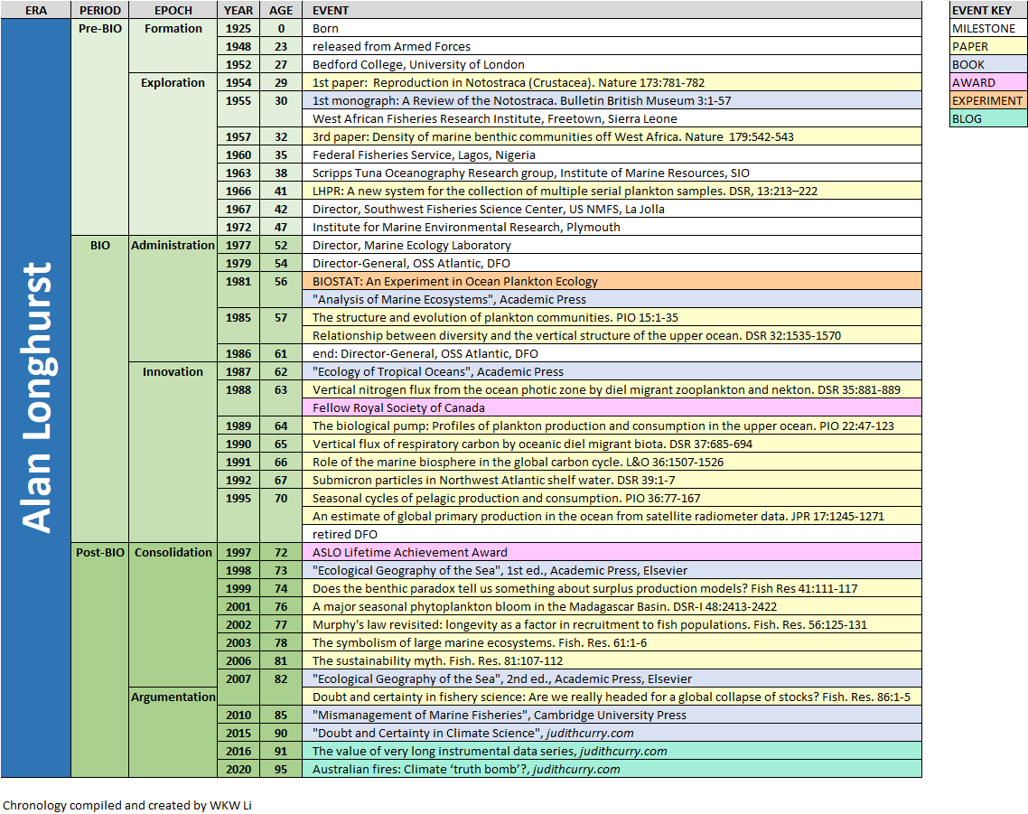 Compiled and created by WKW Li